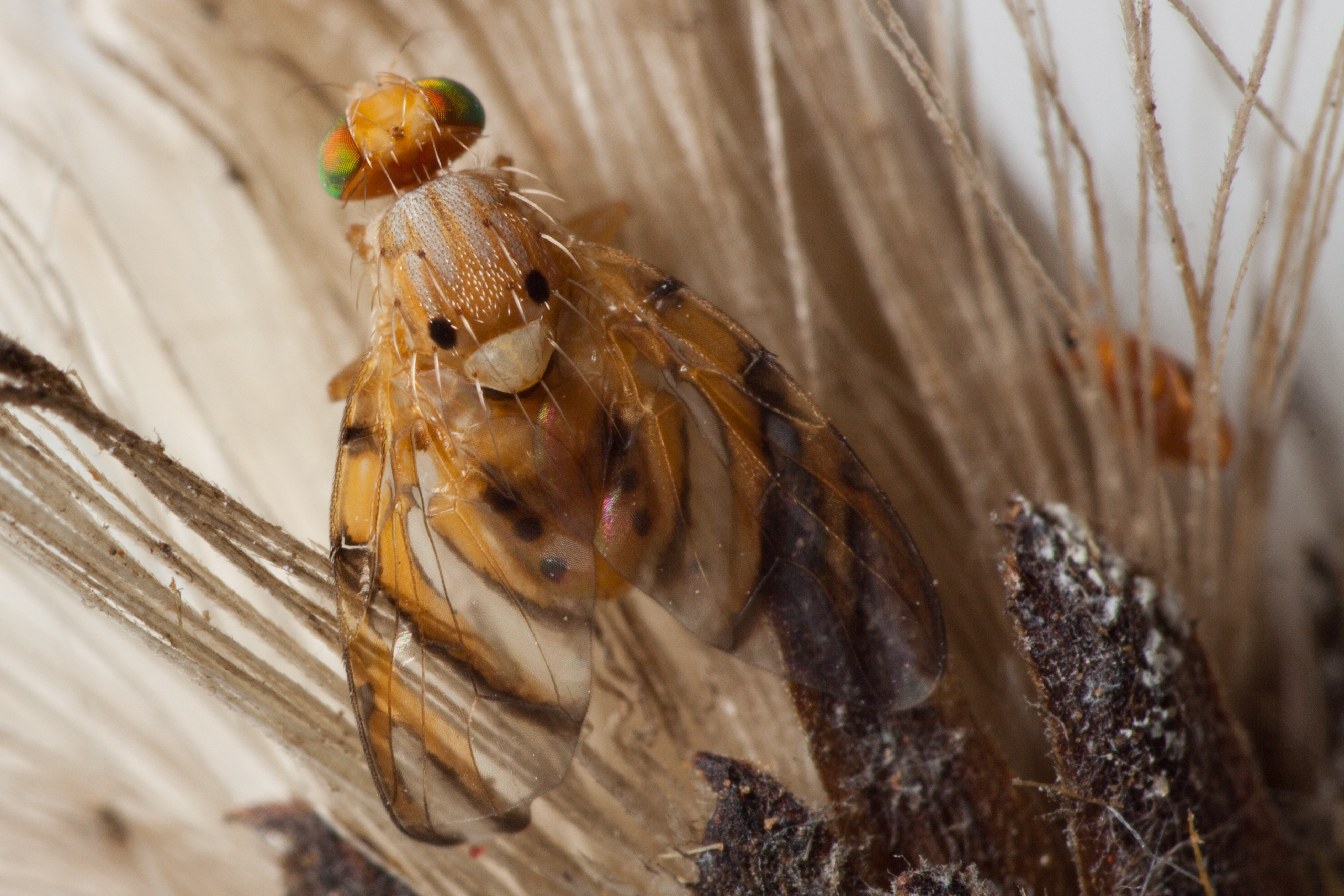 Male of a Tomoplagia fruit-fly. Photo taken in Campinas, Brazil. The individual was collected in Caldas, Minas Gerais state, Brazil. Body size is around 3mm.